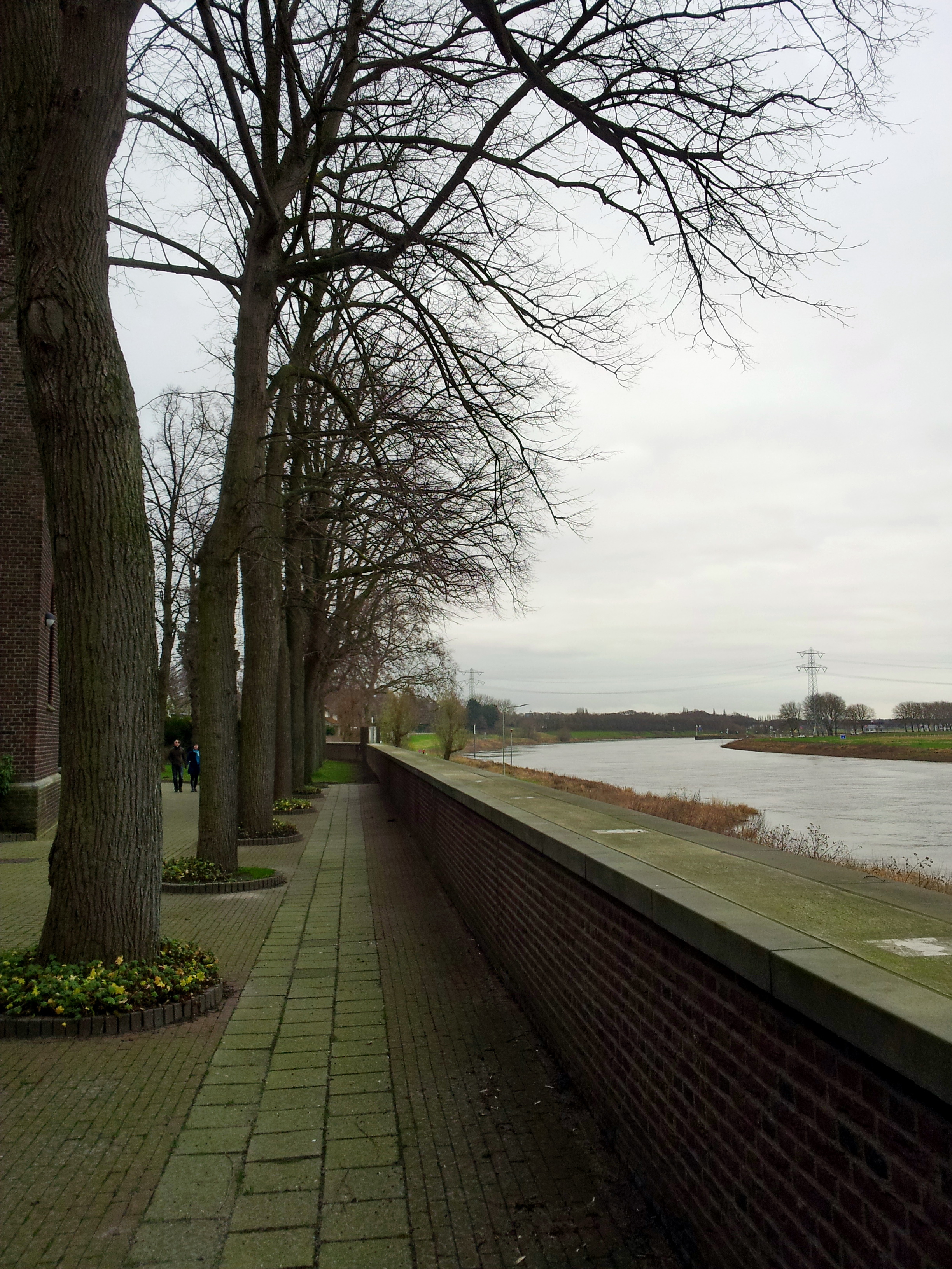 View of river Meuse west of Missiehuis Sint-Michaël in Steyl-Tegelen, Limburg, the Netherlands. The monastery in Steyl is the motherhouse of the Society of the Divine Word (Latin: Societas Verbi Divini or SVD) of Roman Catholic missionaries.